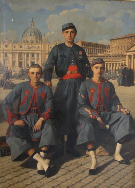 Frère Gaston, Louis et Charles de Villèle